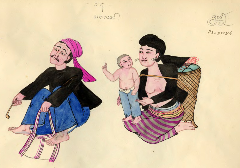 Palaung tribe from a Burmese handpainted color manuscript